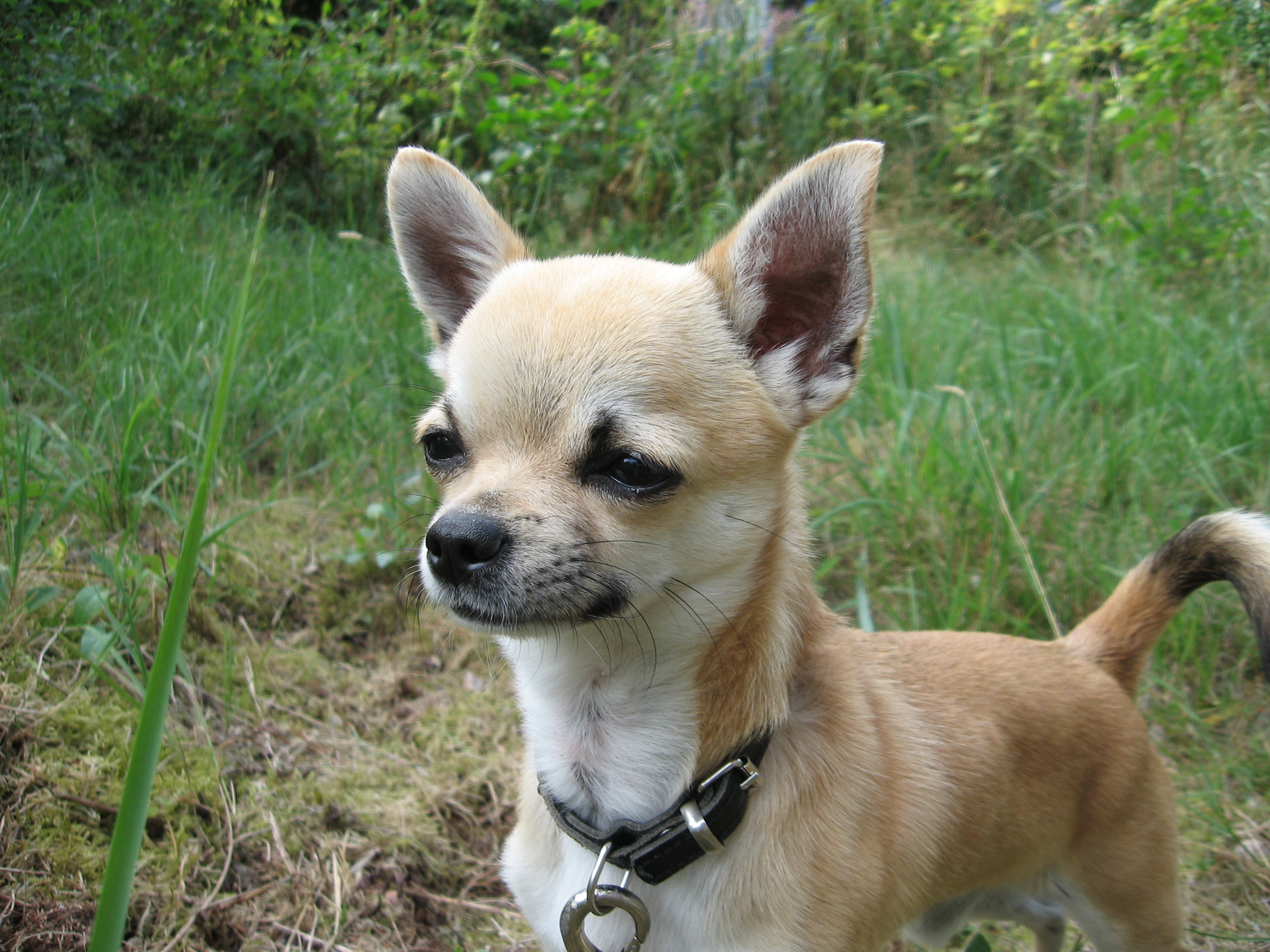 A Chihuahua squinting in the sunlight.